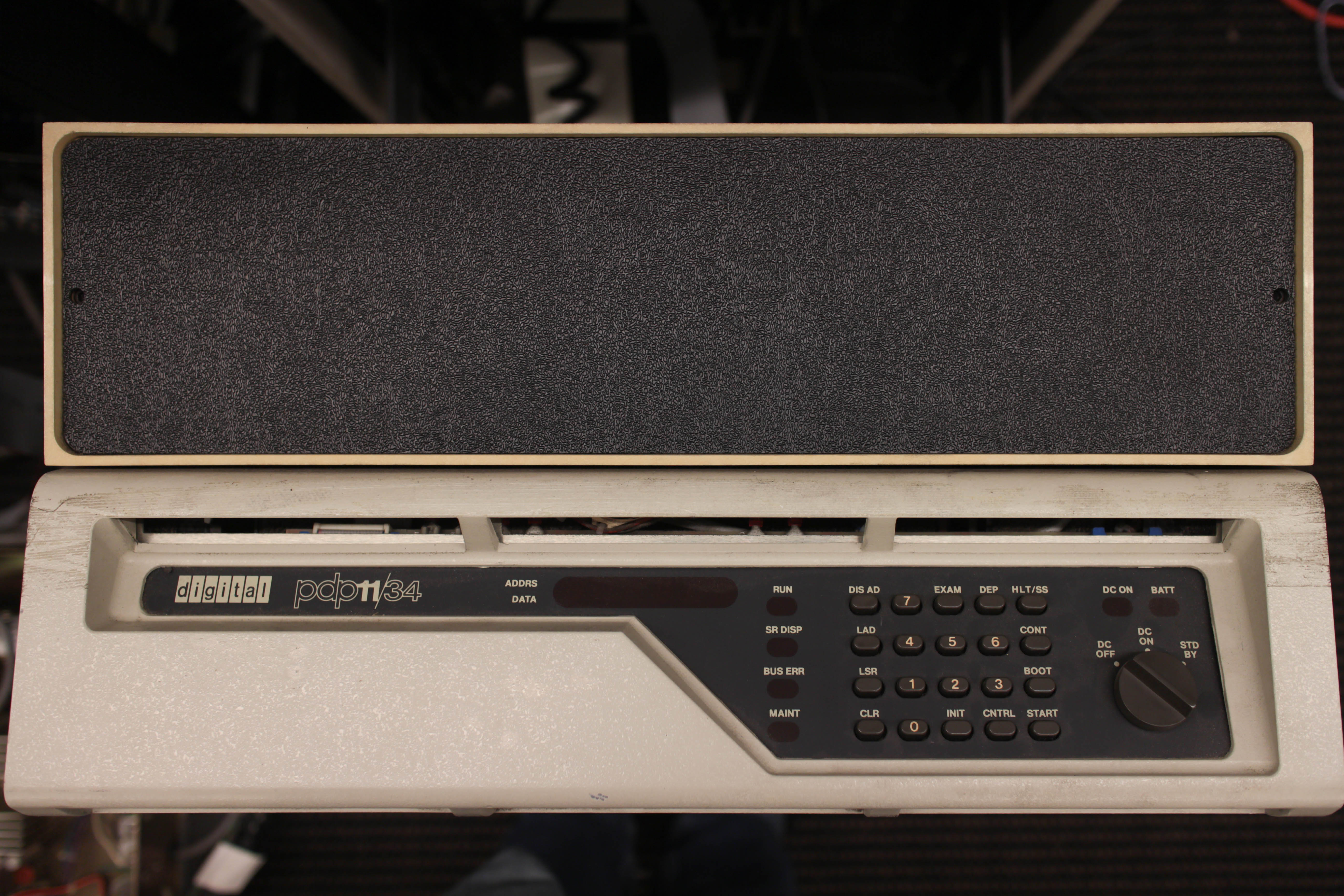 PDP-11/34 front panel with the octal keypad and LED read-out.